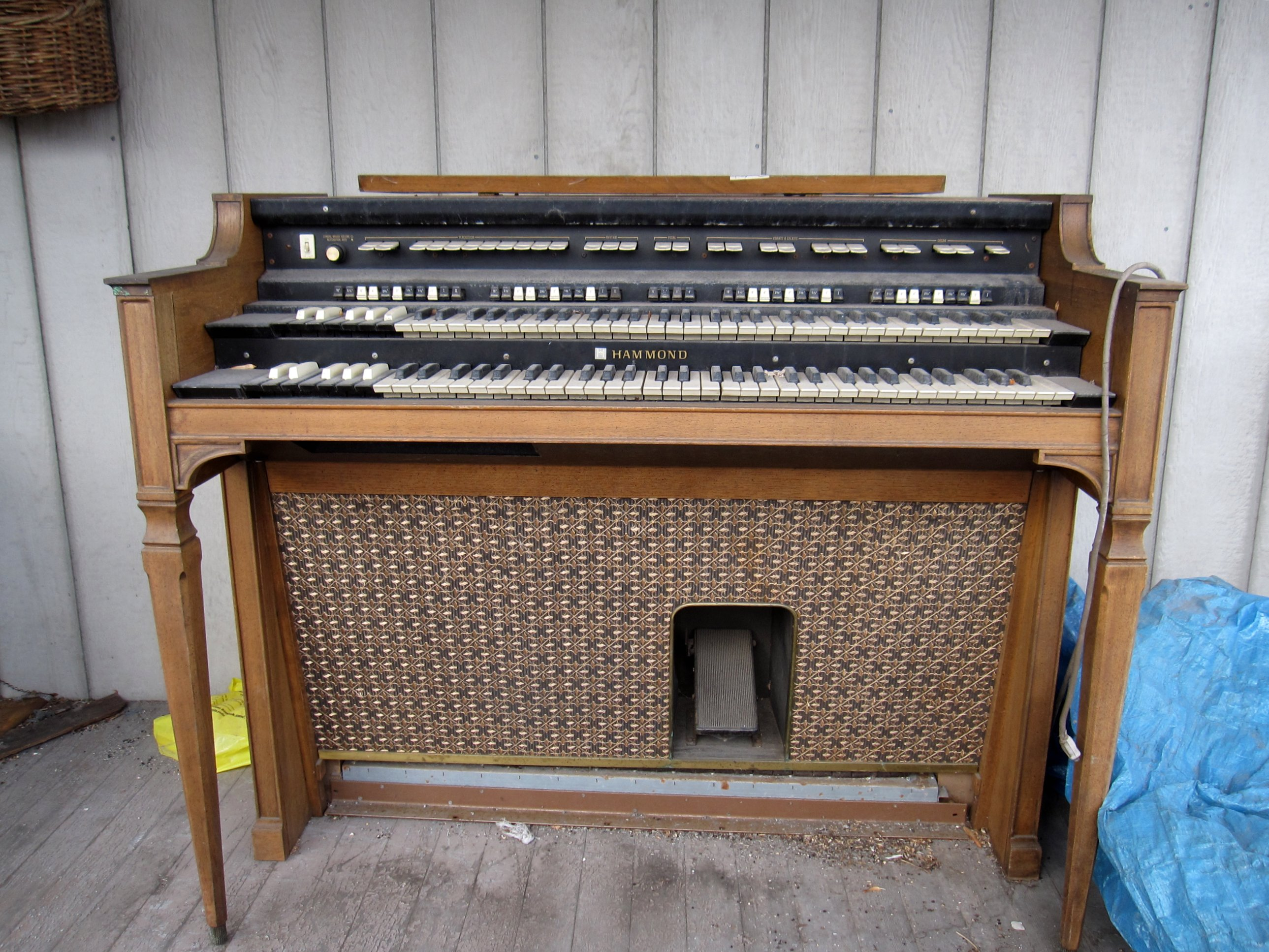 Abandoned Hammond Organ may be Hammond H-100 Series Hammond H-111 Hammond H-324